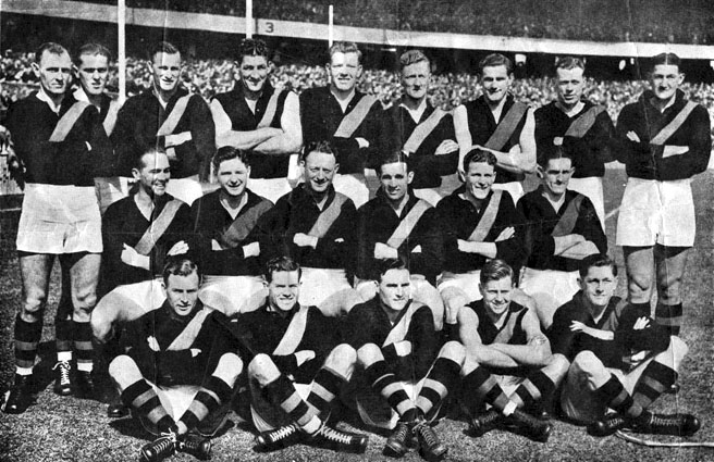 Essendon FC team before playing the Grand Final v Melbourne at the Cricket Ground.